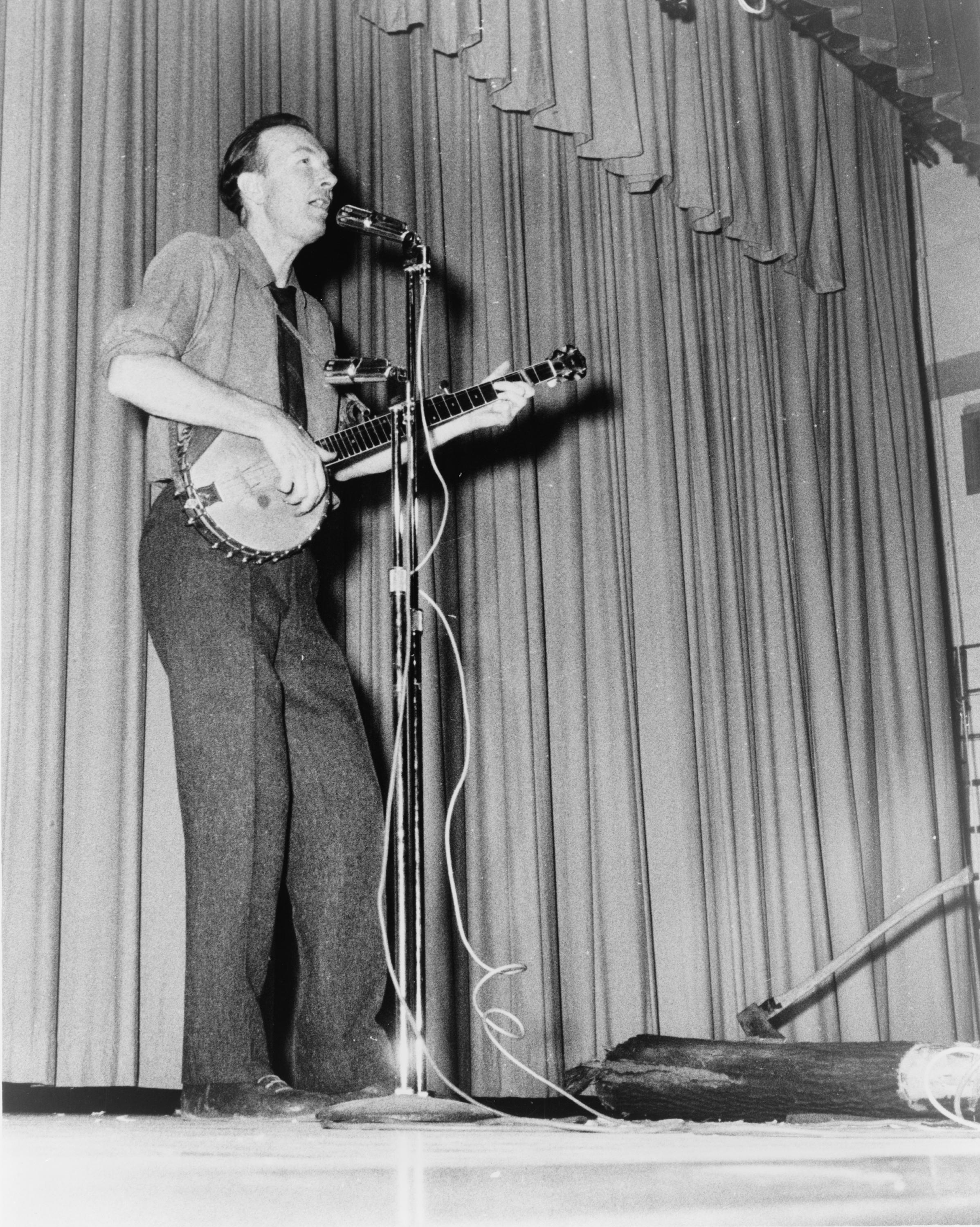 Pete Seeger, full-length portrait, performing on stage at Yorktown Heights High School, Yorktown, N.Y. / World Journal Tribune photo by James Kavallines.